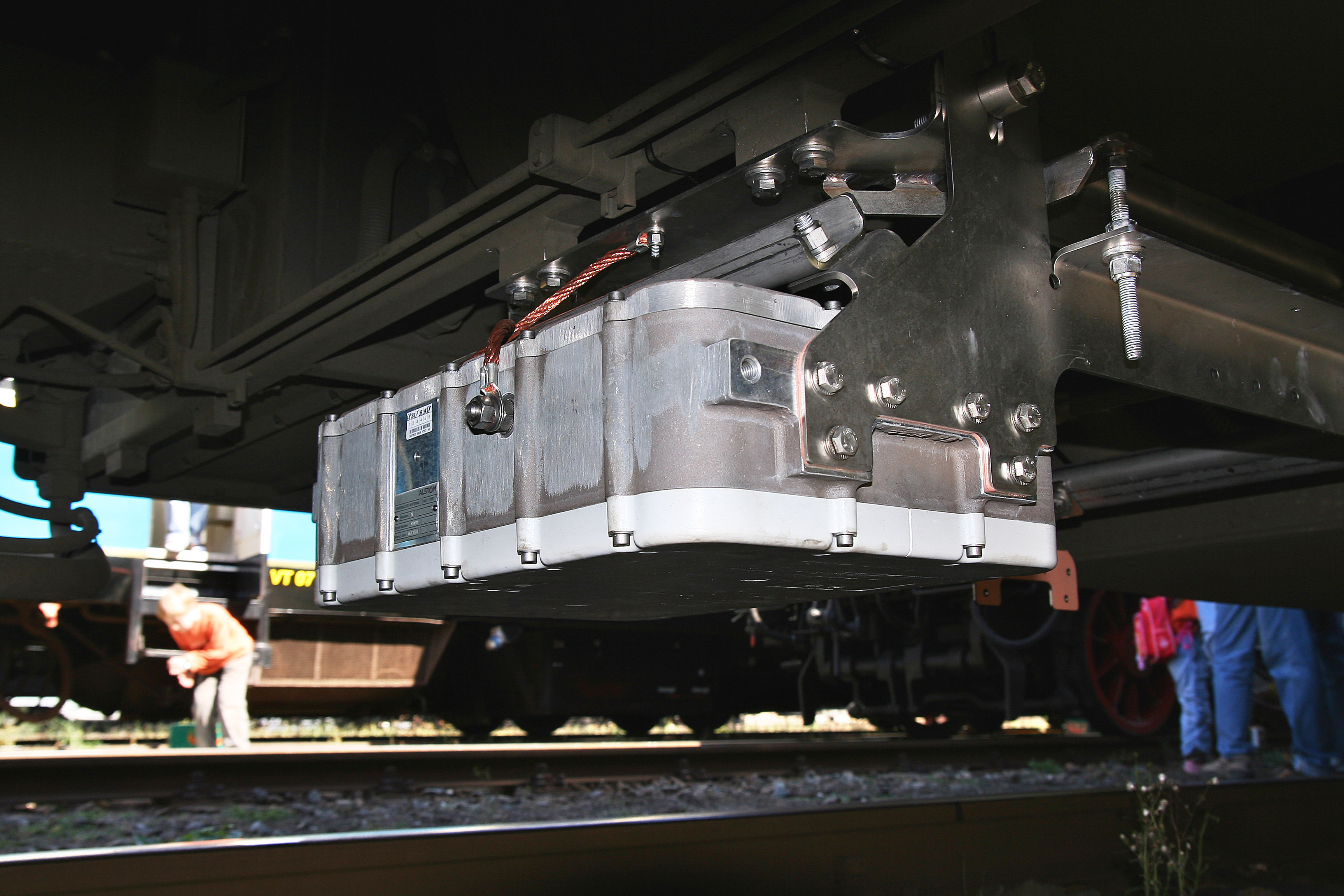 An ETCS antenna on a DB class 189 locomotive